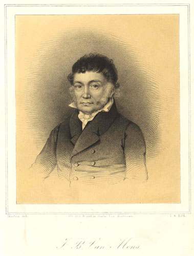 Portrait of Jean-Baptiste Van Mons (1765-1842), Belgian pomologist, horticulturist and chemist, tinted lithograph after Madou, sheet 162 x 238 mm.